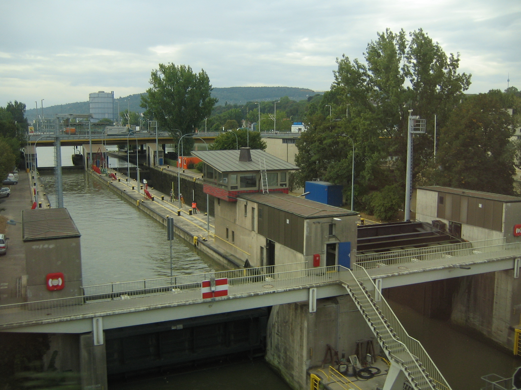 Canal lock, Bad Cannstatt, Stuttgart, Germany. Image taken from a moving train at around 80 kph.